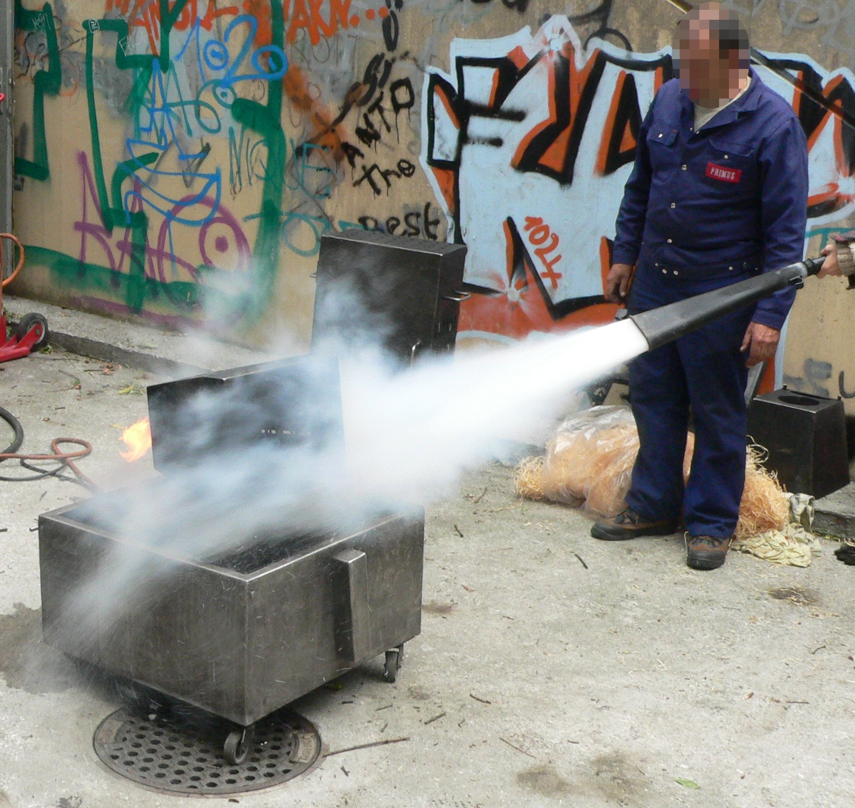 Extinguishing of a screen on fire